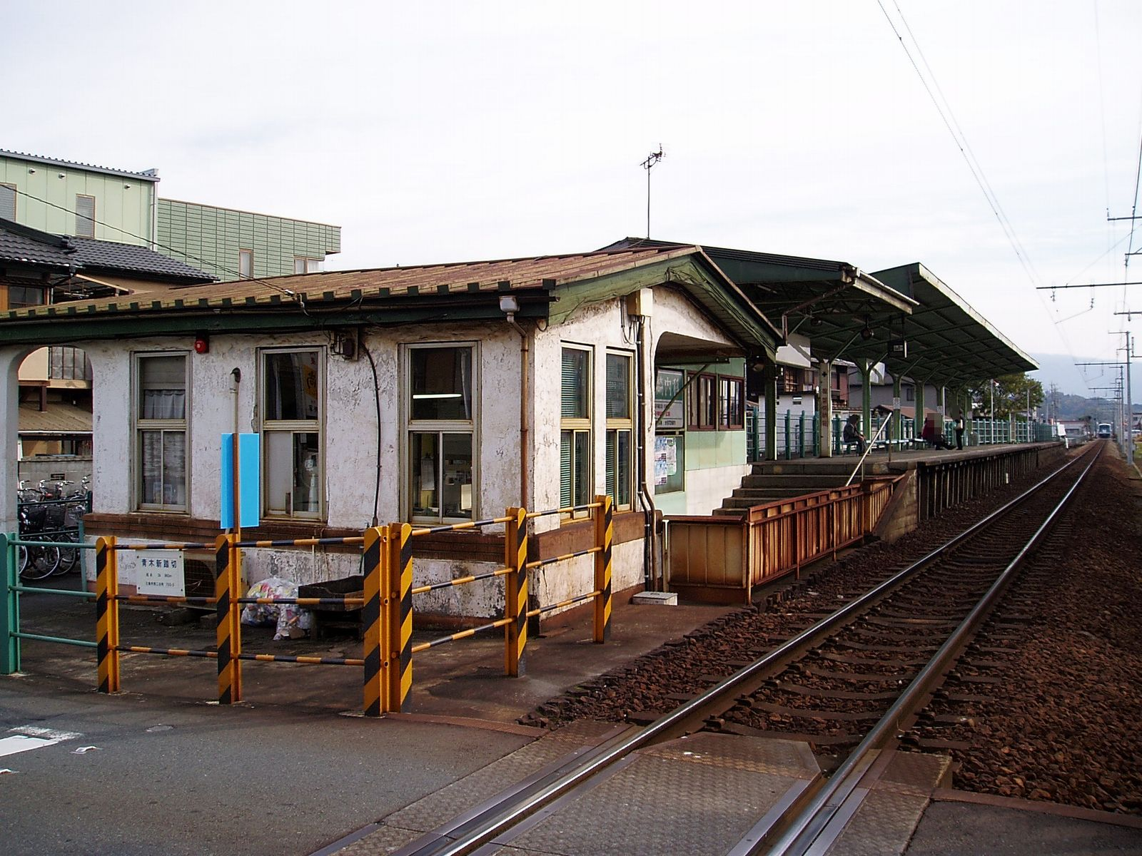 Isuhakone Railway Company, Mishima-Futsukamachi Sta. 2007.11.26 Photo by Cassiopeia_sweet.